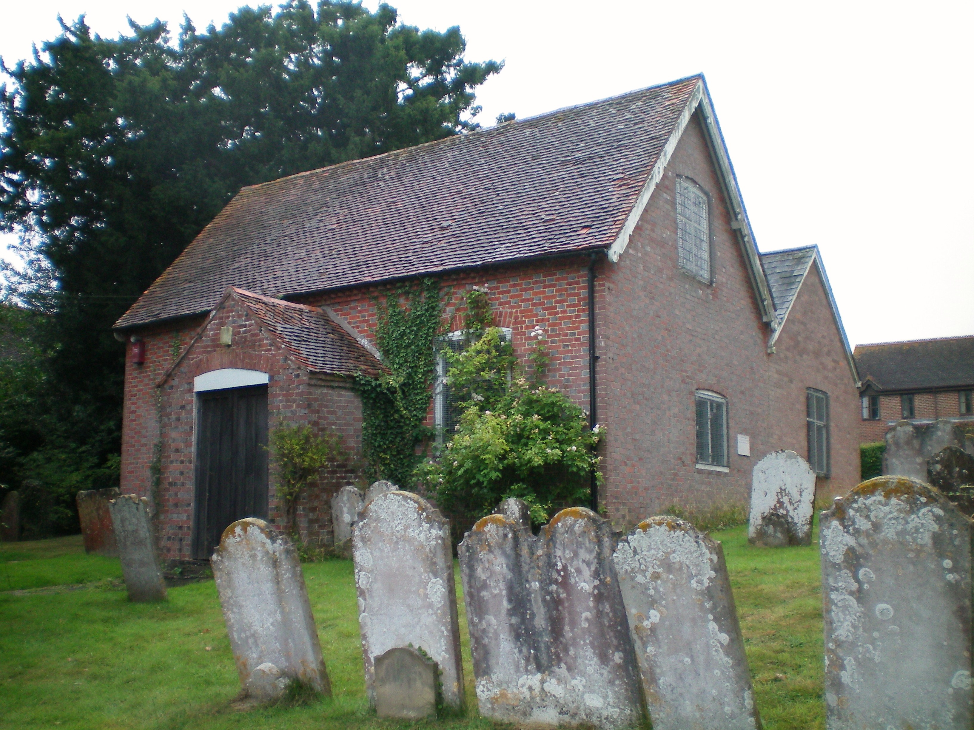 Billingshurst Unitarian Church, West Sussex, England.